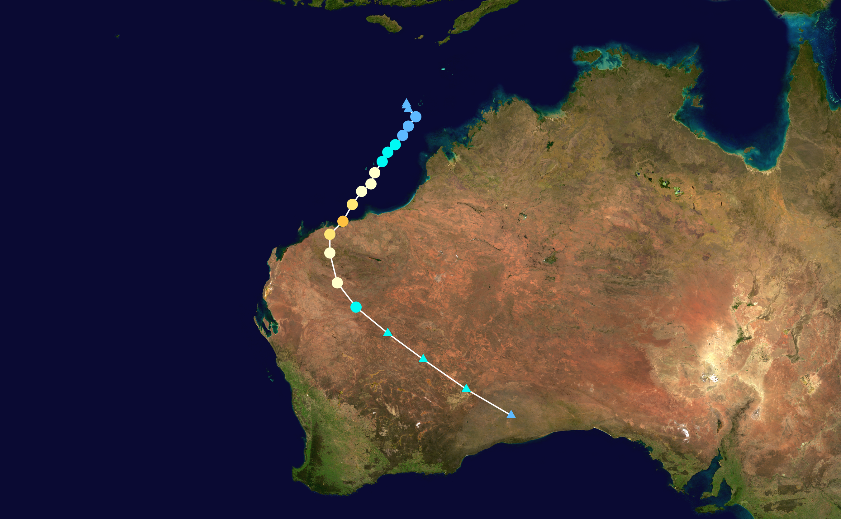 Track map of Severe Tropical Cyclone Christine of the 2013-14 Australian region cyclone season. The points show the location of the storm at 6-hour intervals. The colour represents the storm's maximum sustained wind speeds as classified in the Saffir–Simpson scale (see below), and the shape of the data points represent the nature of the storm, according to the legend below. Saffir–Simpson scale Tropical depression≤38 mph≤62 km/h Category 3111–129 mph178–208 km/h Tropical storm39–73 mph63–118 km/h Category 4130–156 mph209–251 km/h Category 174–95 mph119–153 km/h Category 5≥157 mph≥252 km/h Category 296–110 mph154–177 km/h Unknown Storm type Tropical cyclone Subtropical cyclone Extratropical cyclone / Remnant low / Tropical disturbance / Monsoon depression